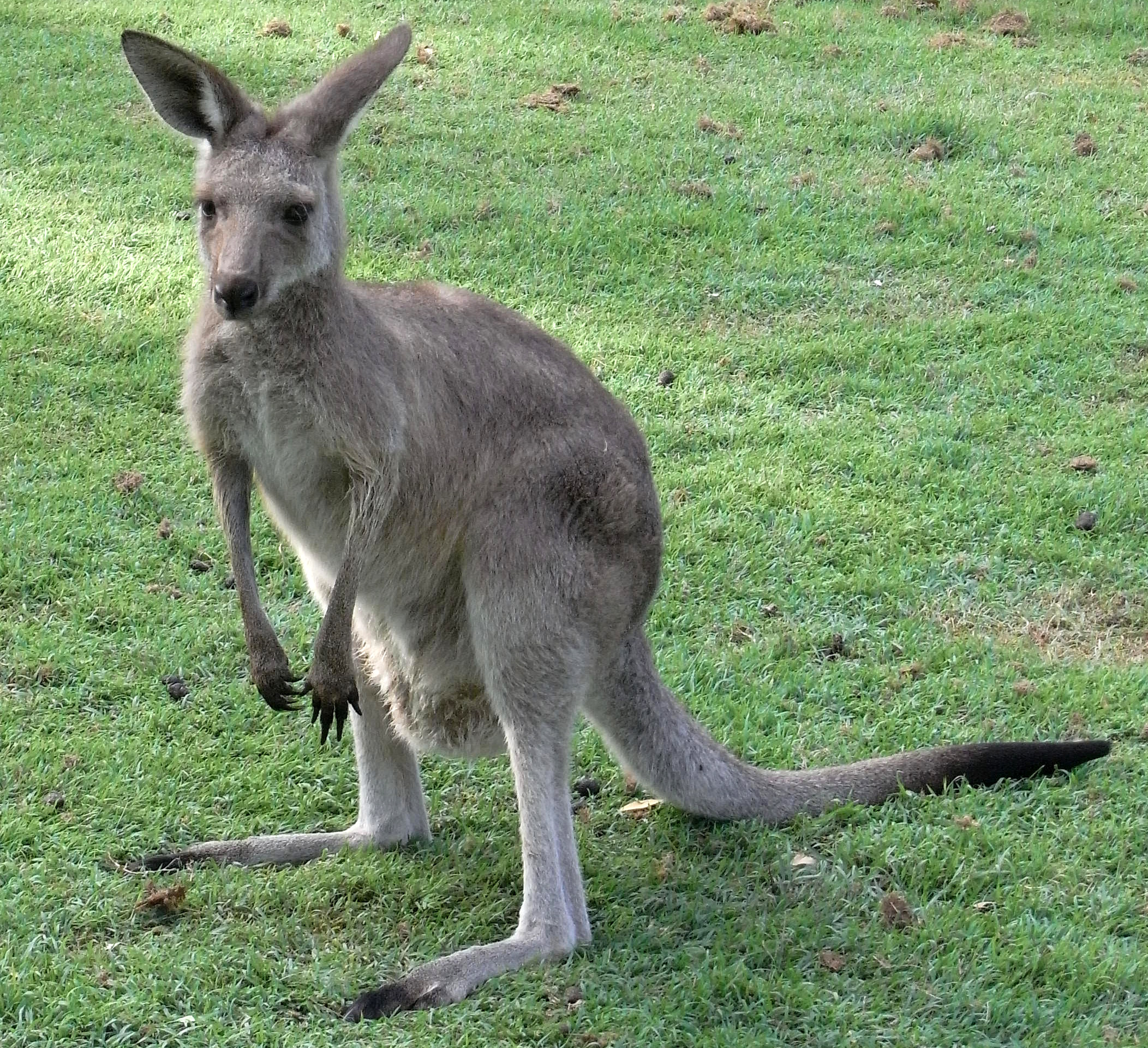 Young Eastern Grey Kangaroo (Macropus giganteus) at Lone Pine Koala Sanctuary, Brisbane, Australia.